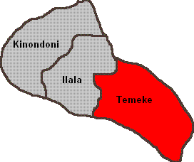 Created by submitter.